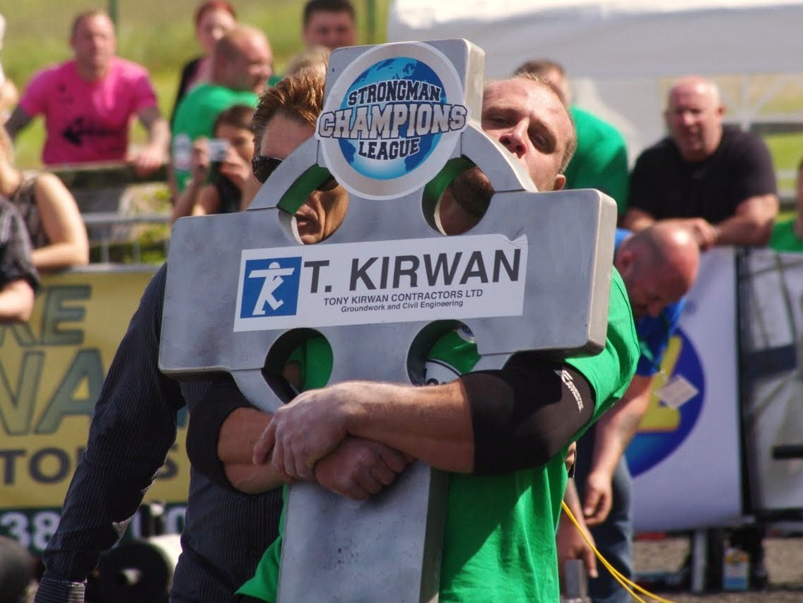 Travis Ortmayer (a strength athlete from the USA) at the Celtic Cross Walk.